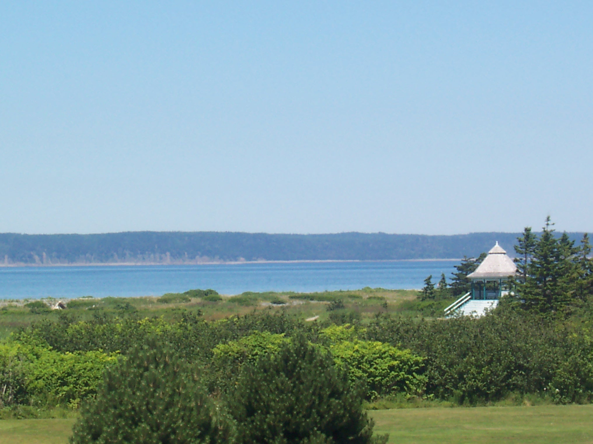 View of Baie St. Marie from the Université St. Anne Campus, Digby County, Nova Scotia, Canada